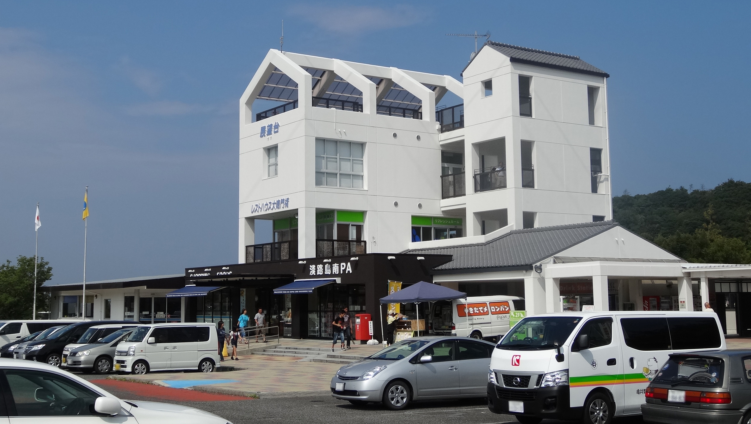 Kobe-Awaji-Naruto Expressway Awajishima-minami Parking Area upside